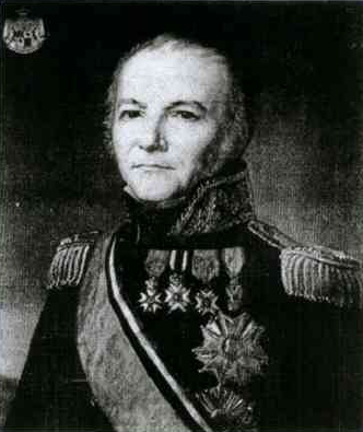 Portrait of: Nicolas Léonard Bagert Beker Nicolas Léonard Beker (1770–1840) Alternative names Nicolas Léonard Bagert Beker; Nicolas Leonard Beker; Nicolas Leonard Bagert BekerDescriptionFrench politician and military leaderDate of birth/death 13 January 1770 18 November 1840Location of birth/death Obernai AubiatAuthority control : Q3340551 VIAF: 32912030 ISNI: 0000 0000 1622 6056 GND: 12373990X SUDOC: 090261305 creator QS:P170,Q3340551